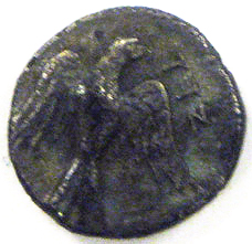 Obverse of Jewish Yehud (Judaean) silver coin (.58 gram), from the Persian era with falcon or eagle and inscription in Aramaic "Yehud" (Judaea)